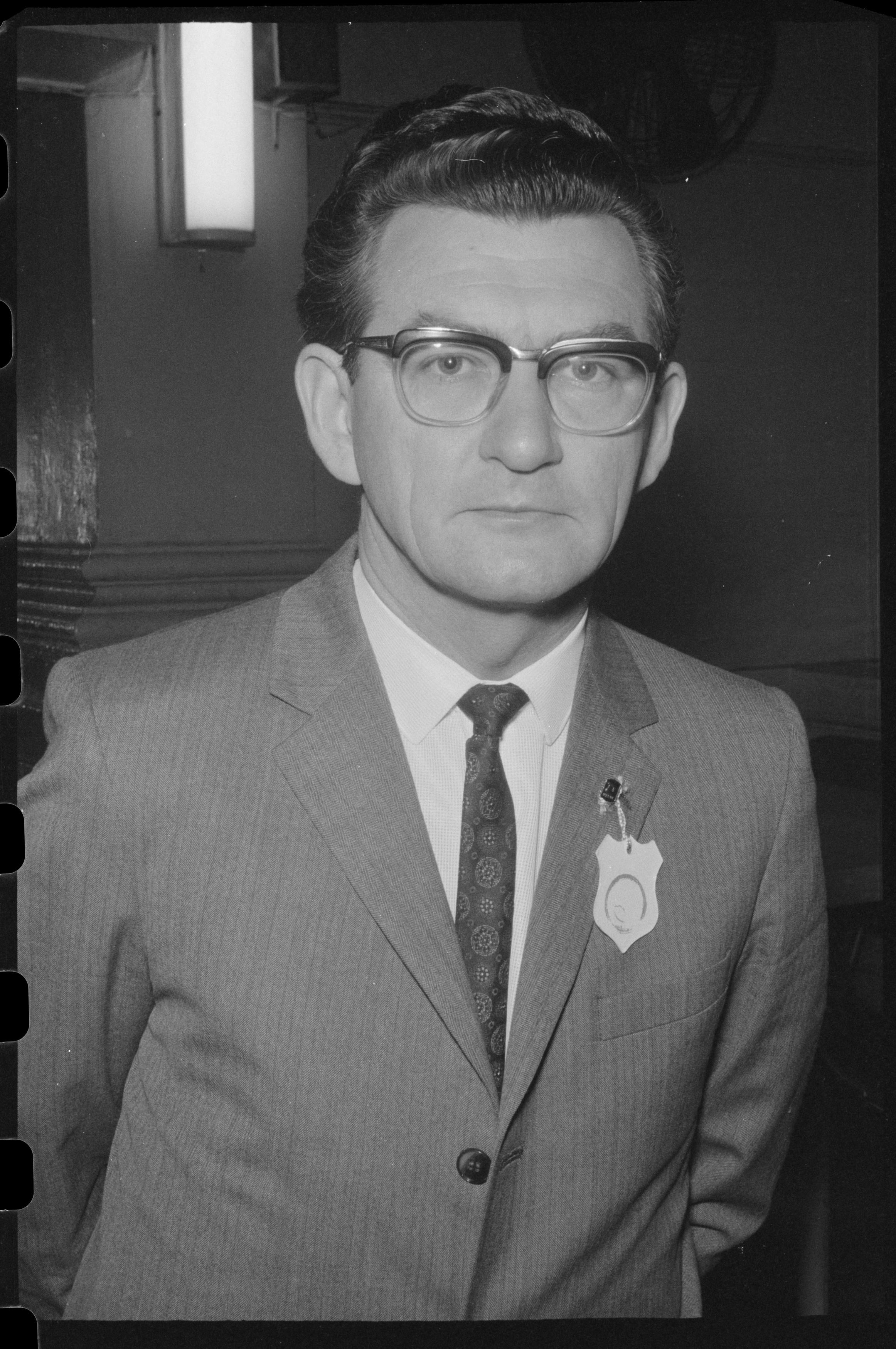 Portrait of Bob Hawke, Australian Council of Trade Unions (ACTU) Congress, Sydney, 1968